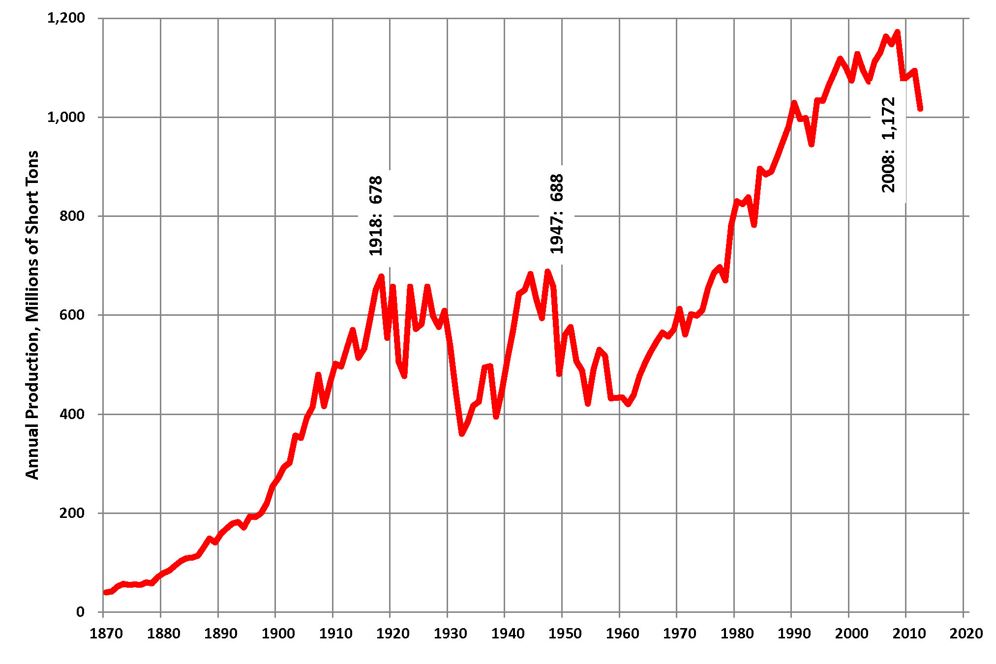 Total US coal production, 1870-2012